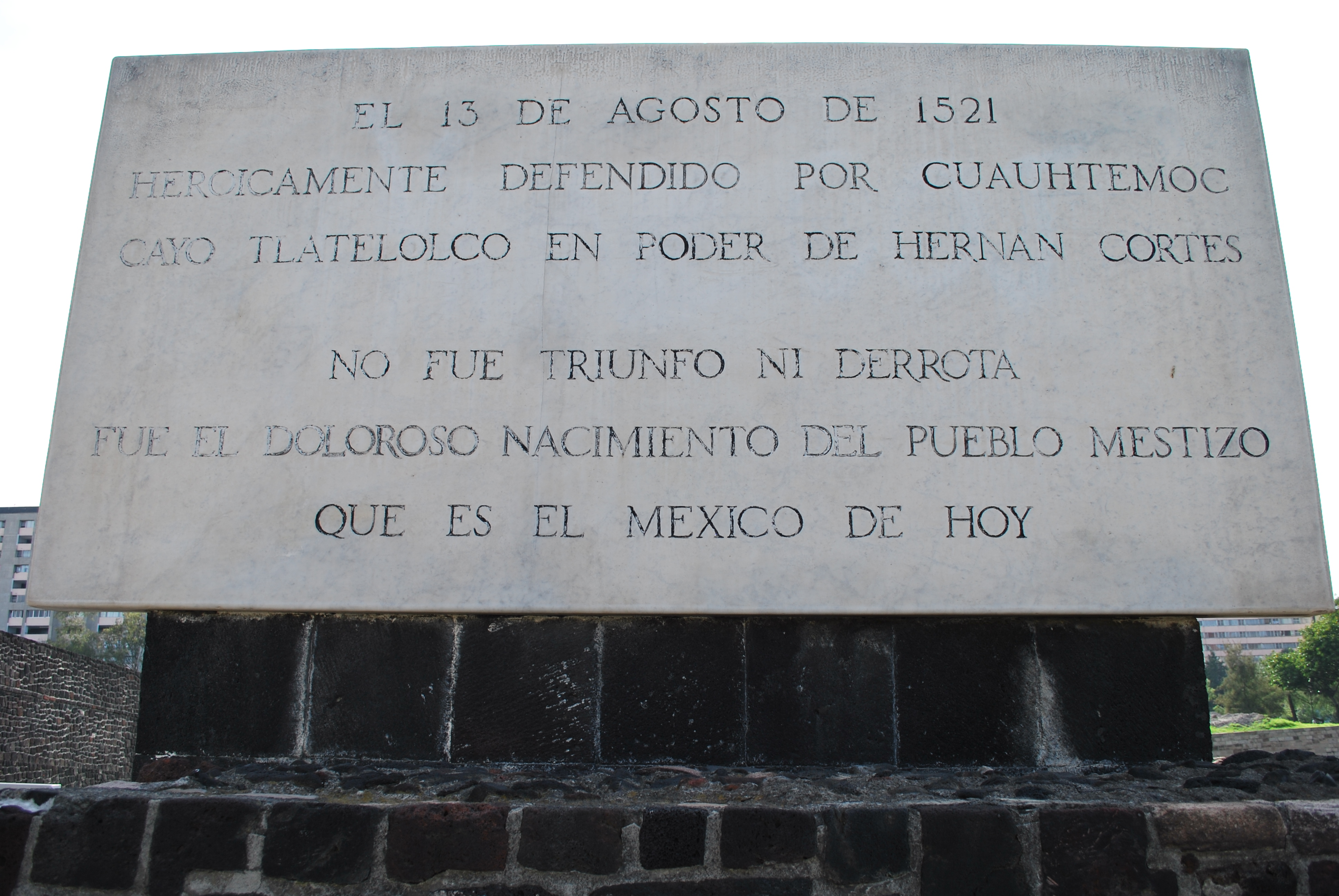 Sign honoring the date when Tlatelolco fell from Cuauhtemoc to Hernan Cortes on 13 August 1521. The sign reads " On 13 August 1521, heroically defended by Cuauhtemoc, Tlatelolco fell to Hernan Cortes. It was neither a defeat or a triumph. It was the painful birth of the mestizo people that are Mexico today."